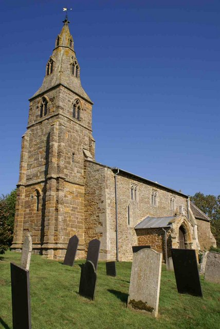 St Botolph's parish church, Wardley, Rutland, seen from the southwest